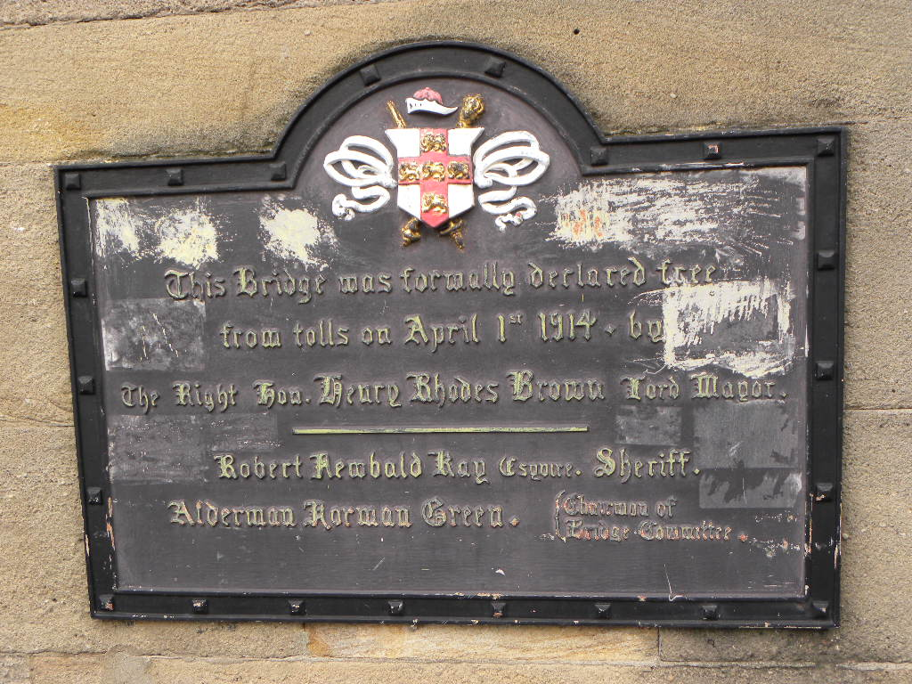 Plaque a fixed near a York bridge evocating the lift of toll-rights in 1914.